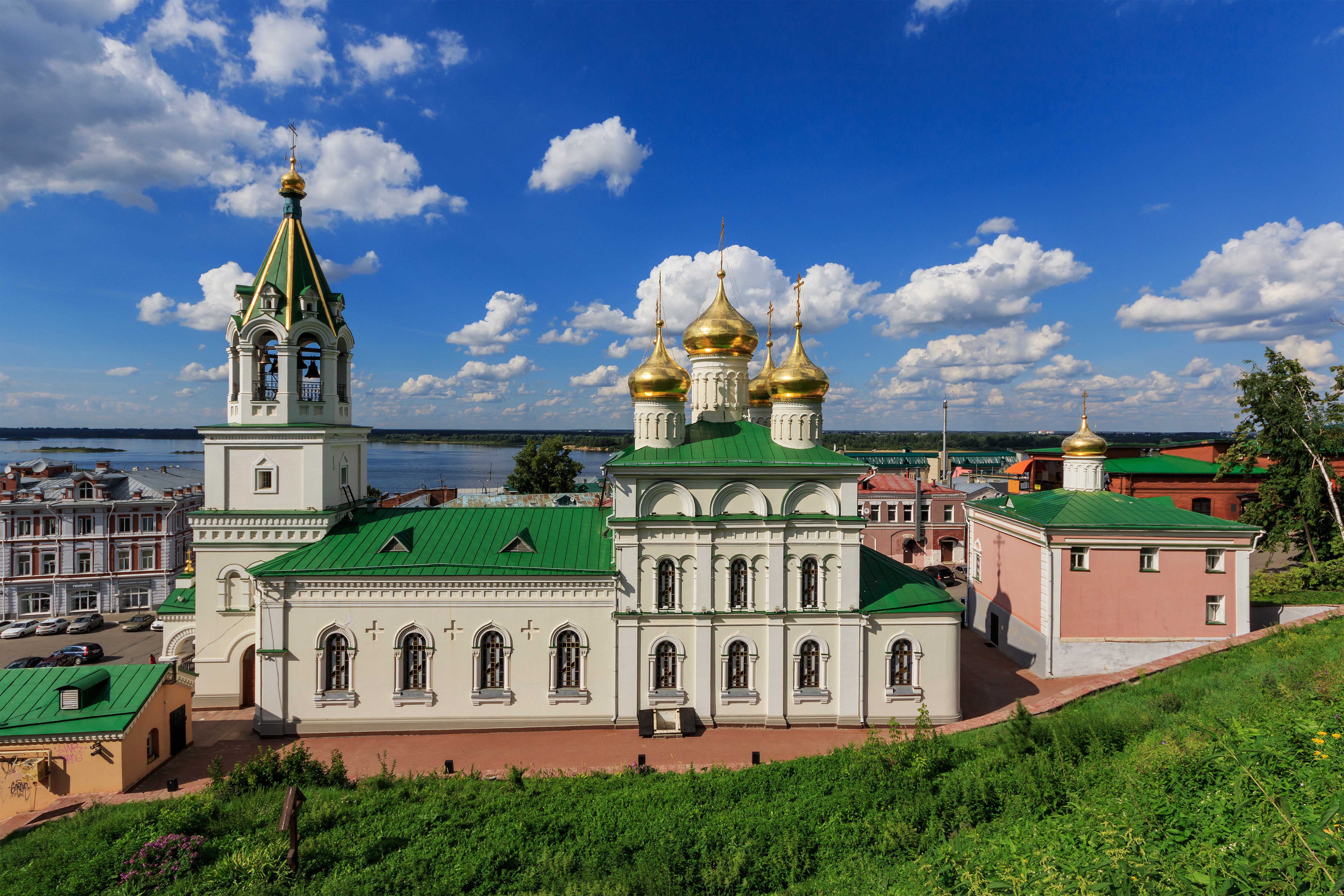 Church of the Nativity of John the Baptist in Nizhny Novgorod, Russia